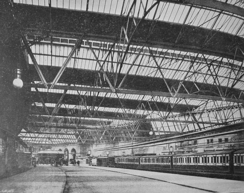 The curved trainshed and its overall roof, designed by Cunningham, Blyth & Westland, of Edinburgh, as deep-truss ridge-and-furrow structure with transverse roofing on top. It measured, roughly, 56m x 260m. Empty cab approach between the two arrival platforms seen in foreground.